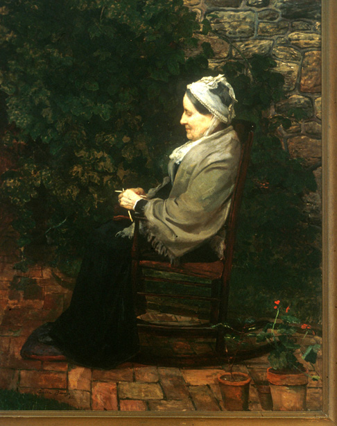 Mrs. John Wheeler Leavitt. Portrait by Philadelphia artist Cecilia Beaux of her grandmother Mrs. John Wheeler Leavitt (nee Cecilia Kent) of Suffield, Connecticut.